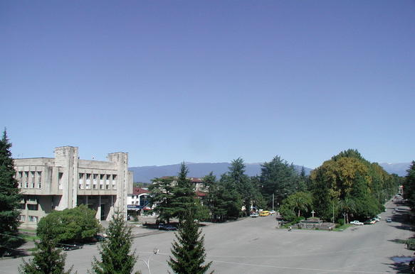 Sugdidi, Georgia